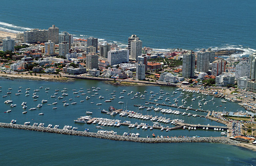 Port of Punta del Este